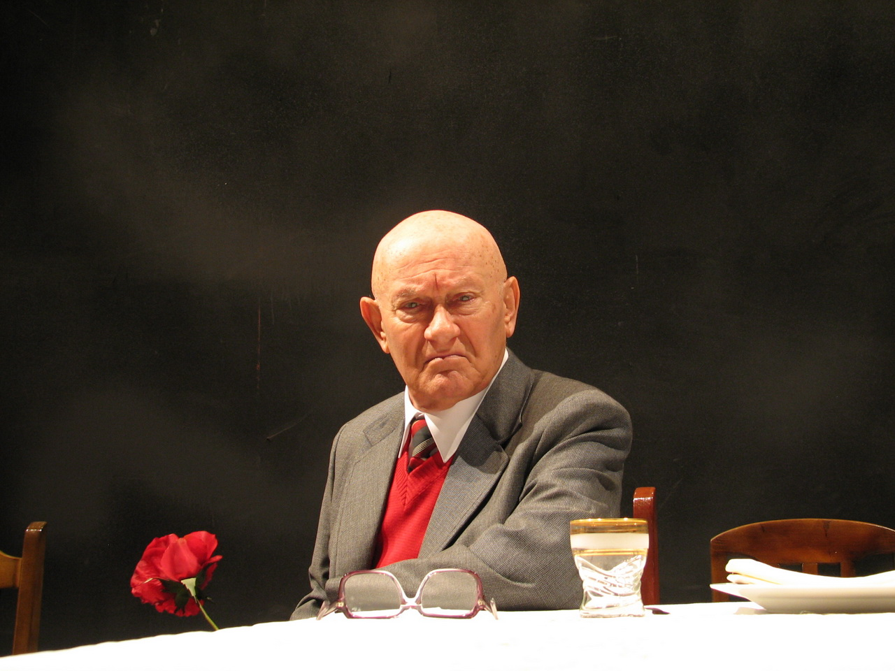 "Ivanov" by Anton Pavlovich Chekhov, directed by Predrag Štrbac, Drama of SNT, Novi Sad, 2007/08; Rade Kojadinović Srpski (latinica): "Ivanov" Antona Pavloviča Čehova u režiji Predraga Štrpca, Drama SNP-a, Novi Sad, 2007/08; Rade Kojadinović Српски (ћирилица): "Иванов" Антона Павловича Чехова у режији Предрага Штрпца, СНП Драма, Нови Сад, 2007/08; Раде Којадиновић